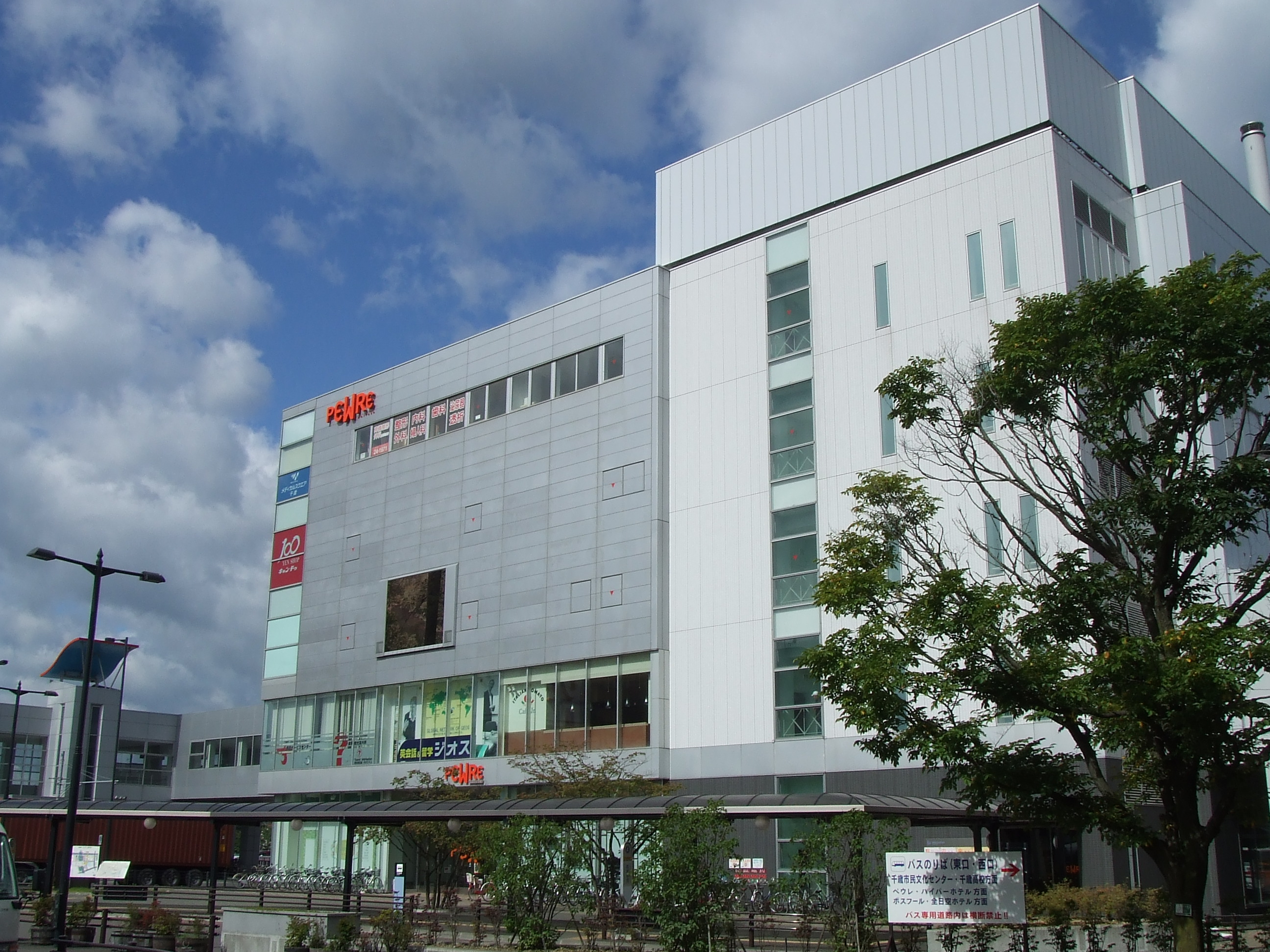 Chitose, Hokkaido, Japan. JR Chitose Station west side.